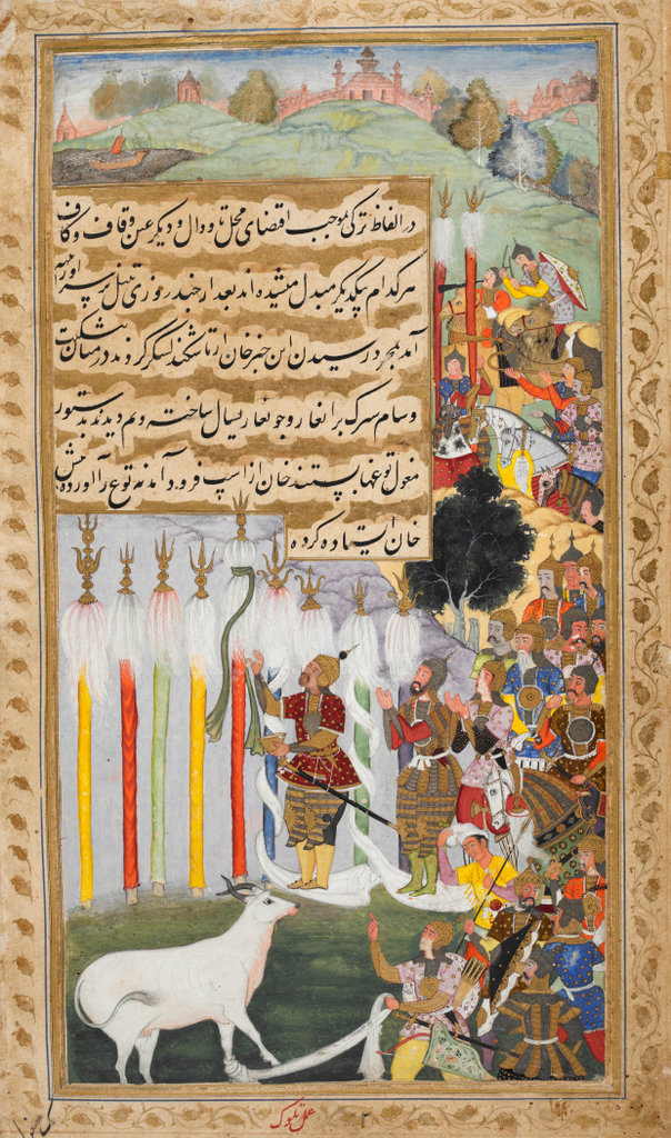 The "Memoirs of Babur" or Baburnama are the work of the great-great-great-grandson of Timur (Tamerlane), Zahiruddin Muhammad Babur (1483-1530). The Baburnama tells the tale of the prince's struggle first to assert and defend his claim to the throne of Samarkand and the region of the Fergana Valley. After being driven out of Samarkand in 1501 by the Uzbek Shaibanids, he ultimately sought greener pastures, first in Kabul and then in northern India, where his descendants were the Moghul (Mughal) dynasty ruling in Delhi until 1858. The miniatures are from an illustrated copy of the Baburnama prepared for the author's grandson, the Mughal Emperor Akbar. It is worth remembering that the miniatures reflect the culture of the court at Delhi; hence, for example, the architecture of Central Asian cities resembles the architecture of Mughal India. Nonetheless, these illustrations are important as evidence of the tradition of exquisite miniature painting which developed at the court of Timur and his successors. Timurid miniatures are among the greatest artistic achievements of the Islamic world in the fifteenth and sixteenth centuries. Illustrations of Mughals from the Baburnama